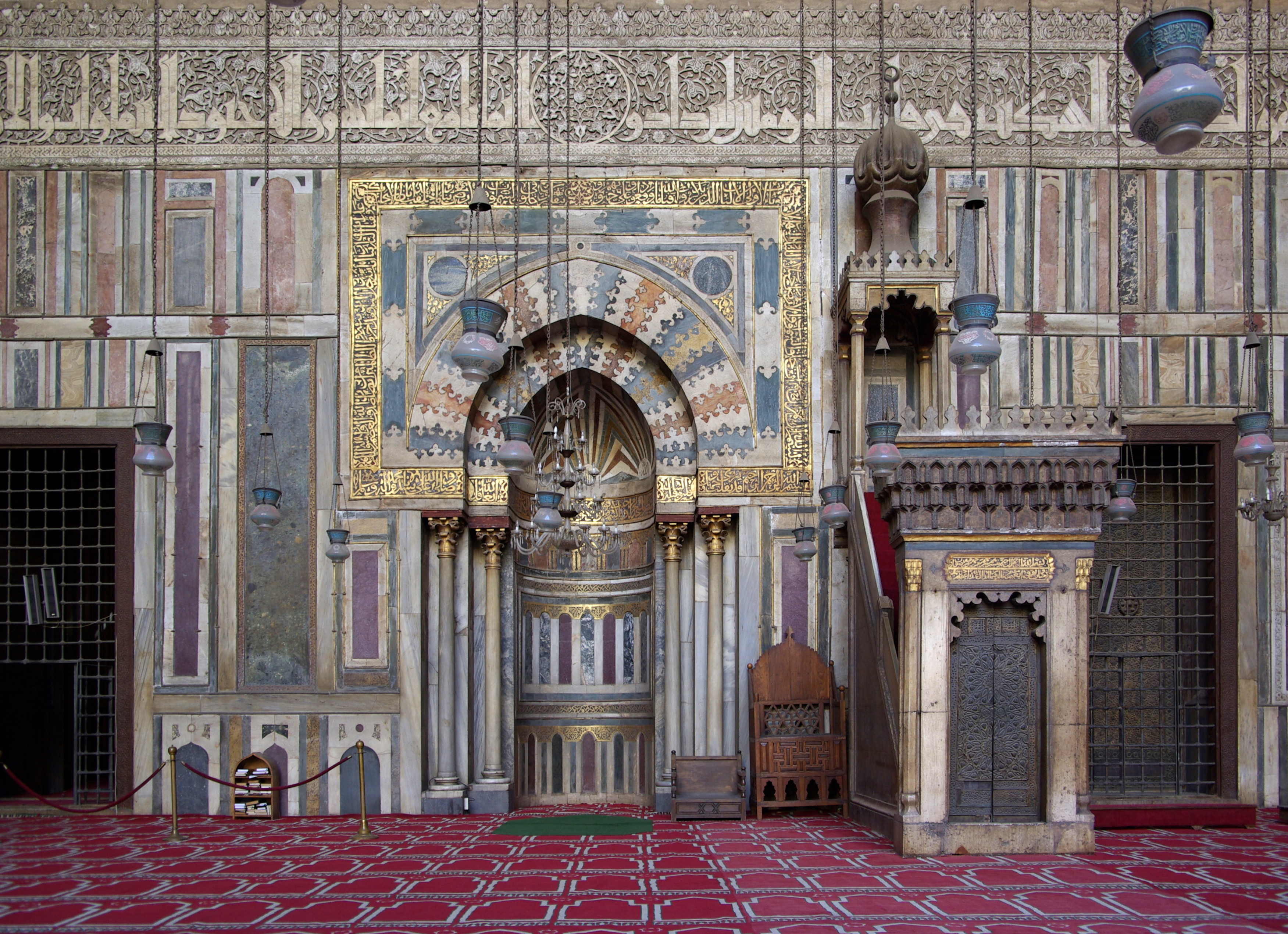 Cairo, Mosque-Madrassa of Sultan Hassan